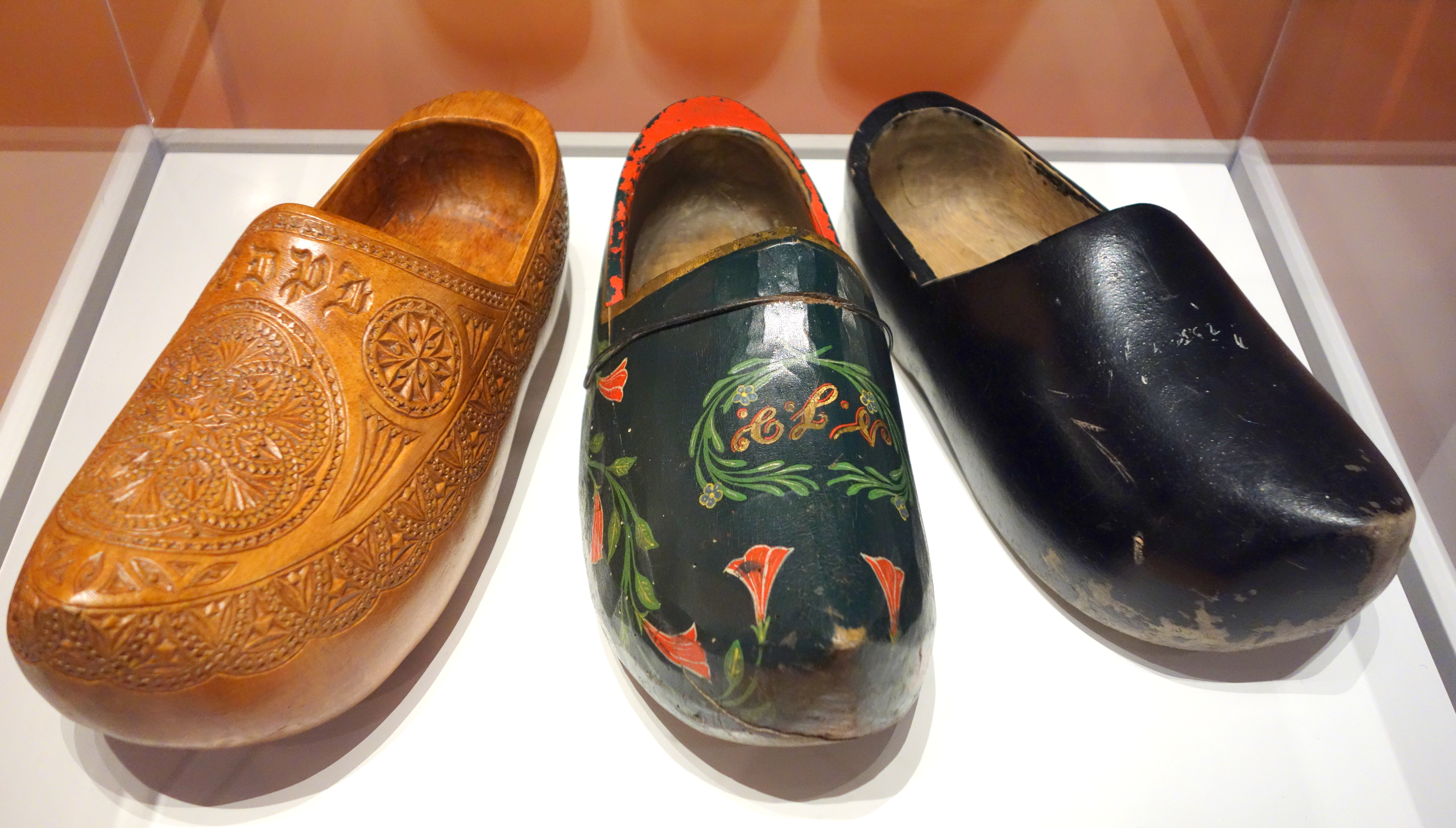 Exhibit in the Bata Shoe Museum, Toronto, Ontario, Canada. This item is old enough so that its design is in the public domain. The museum permitted photography without restriction.